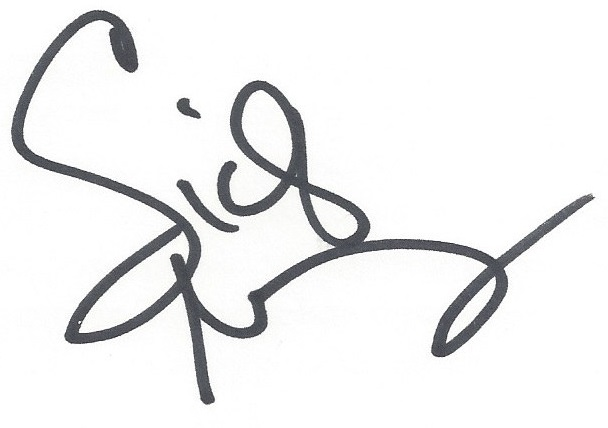 Sidney Moncrief autograph